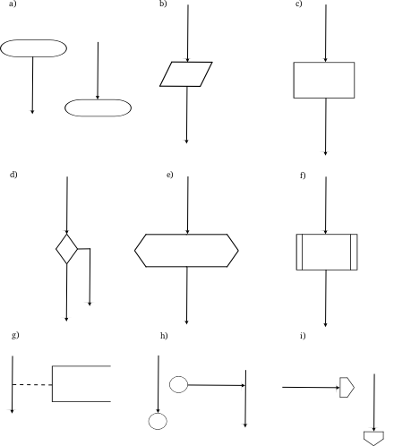 block diagram, flowchart